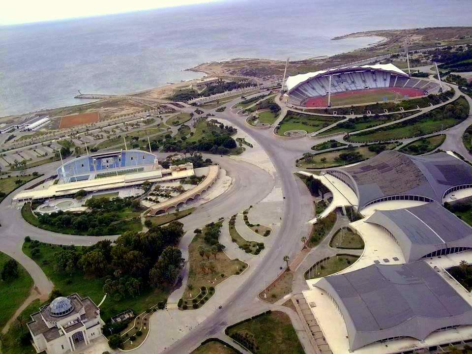 Latakia Sports City aerial view in 1991, Latakia, Syria.